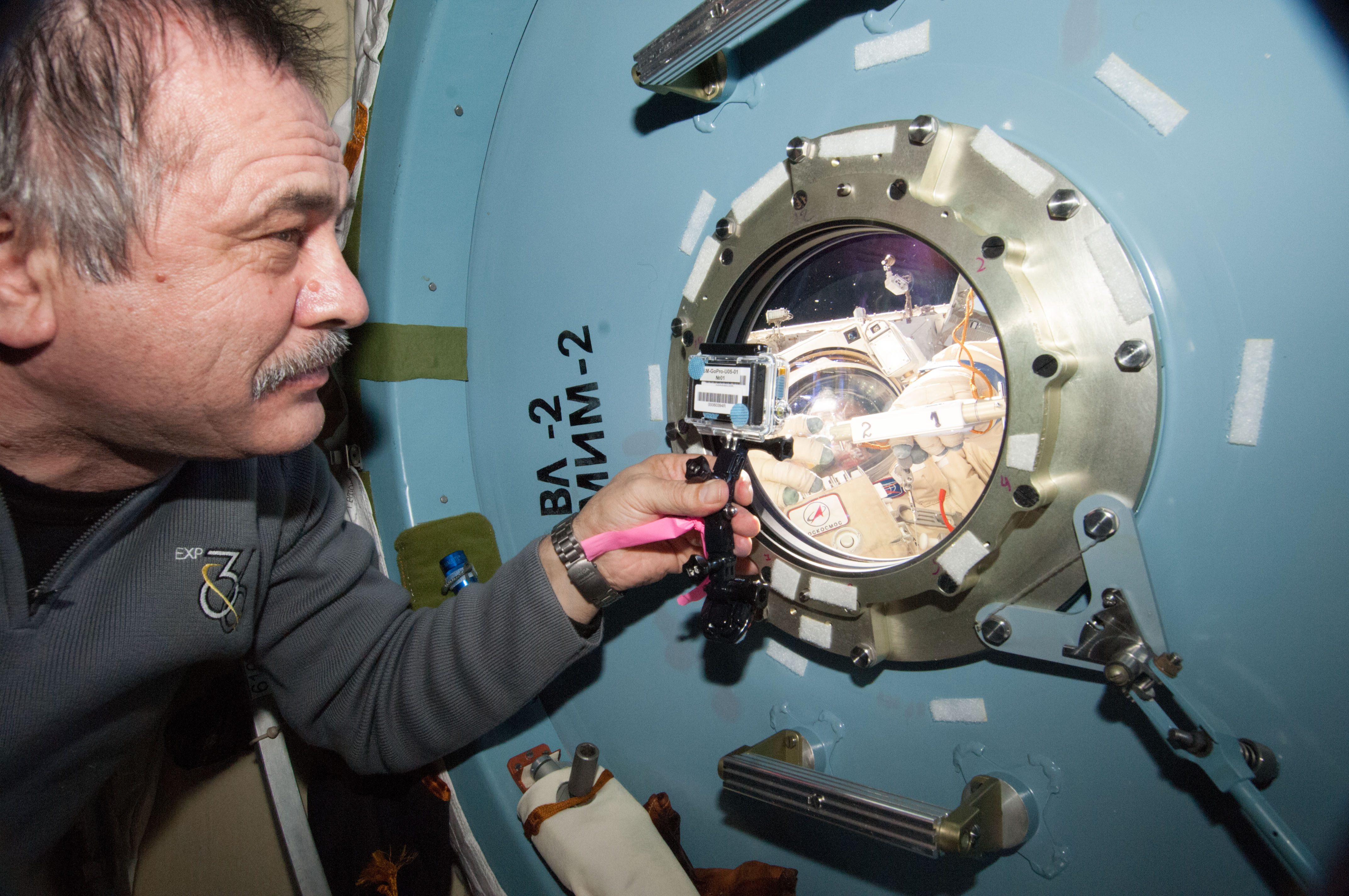 Russian cosmonaut Pavel Vinogradov, Expedition 36 commander, uses a small video camera at a window in the International Space Station's Poisk Mini-Research Module 2 (MIM2) to capture spacewalk activities with Russian cosmonauts Fyodor Yurchikhin and Alexander Misurkin, both Expedition 36 flight engineers.